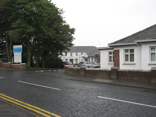 Hospital entrance Entrance to the Robinson Memorial Hospital and also to the recently built Health Centre.